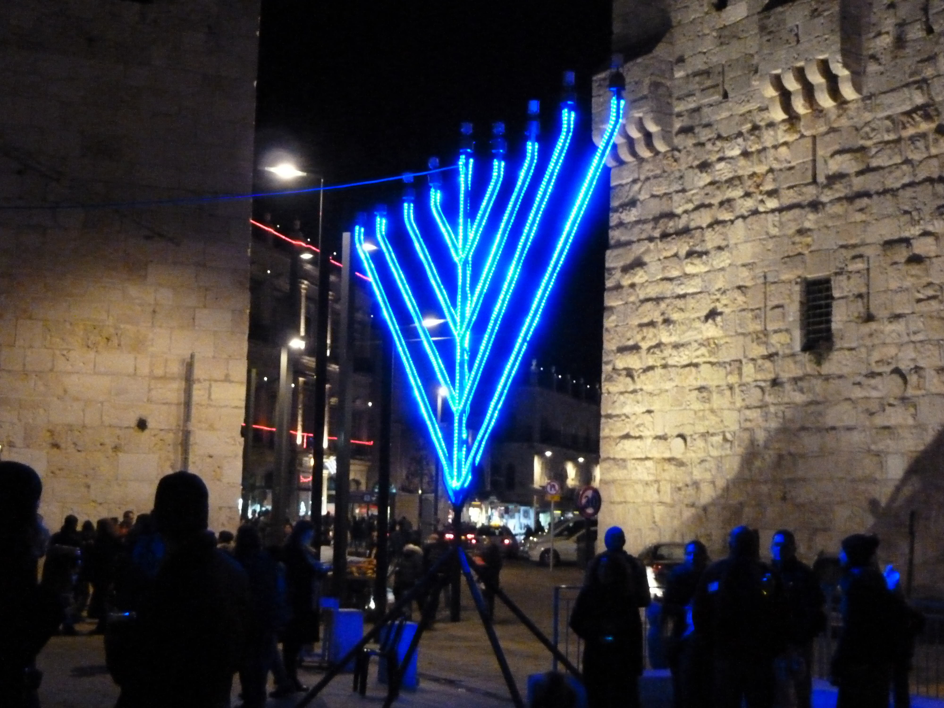 Old Jerusalem Jaffa Gate with blue chanukkiyah during Hanukkah festival